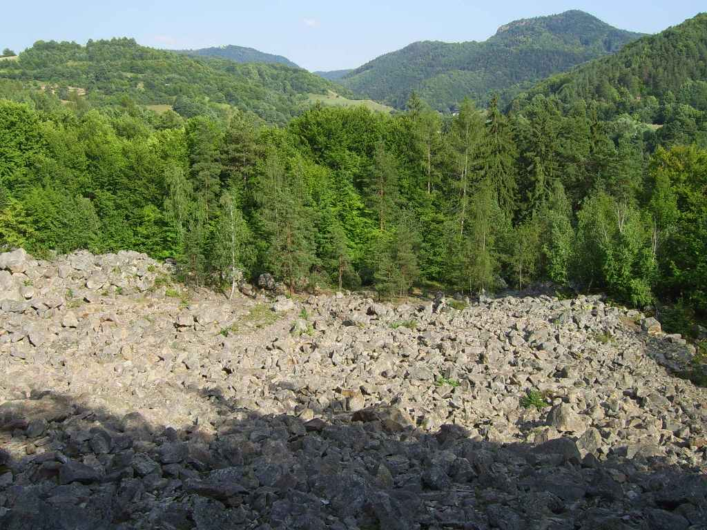 The view on the Nature Reserve Kamenné more (Stone sea) and Štiavnické vrchy (Štiavnica Mountains).